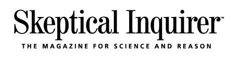 Logo of the Skeptical Inquirer, the magazine published by the Committee for Skeptical Inquiry or CSI (previously Committee for the Scientific Investigation of Claims of the Paranormal or CSICOP 1976–2006)